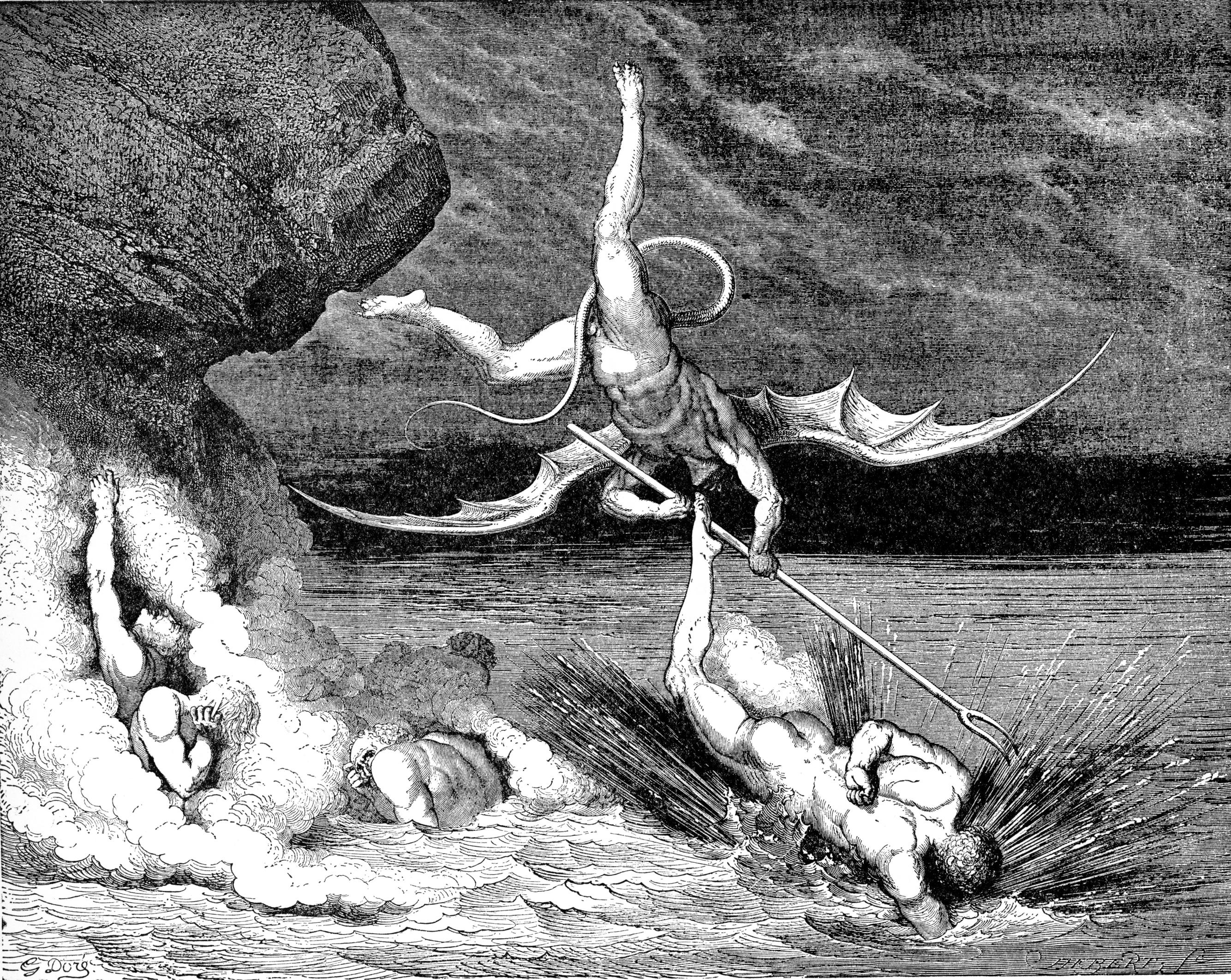 High resolution scan of engraving by Gustave Doré illustrating Canto XXII of Divine Comedy, Inferno, by Dante Alighieri. Caption: Ciampolo escaping from the Demon Alichino